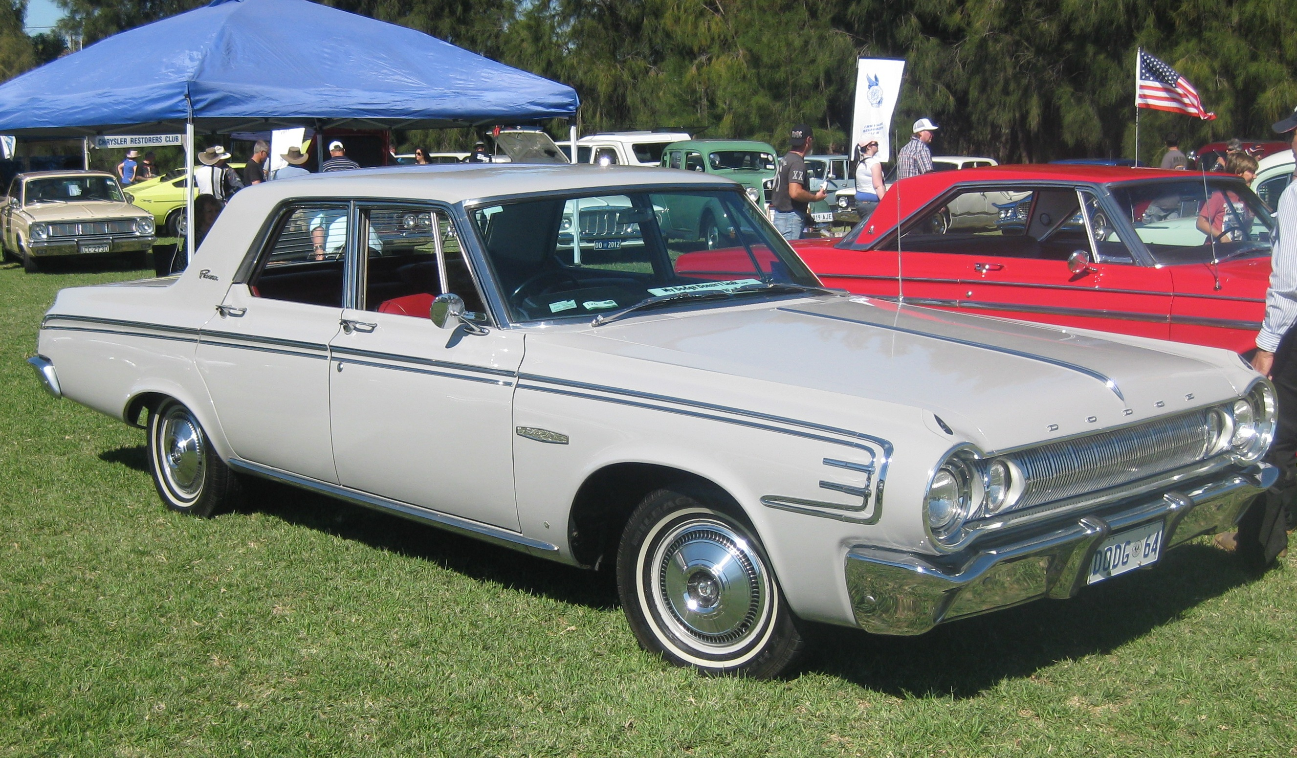 1964 Dodge Phoenix - produced by Chrysler Australia